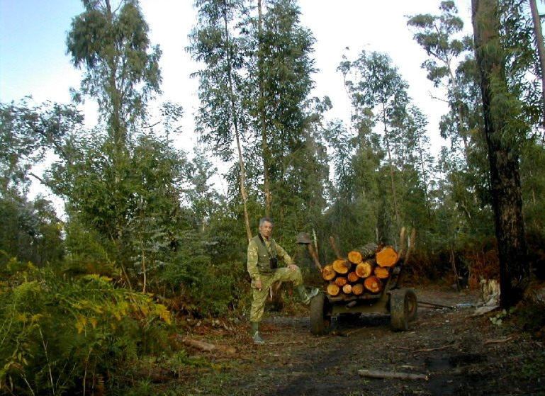 Kolkheti National Park, Georgia